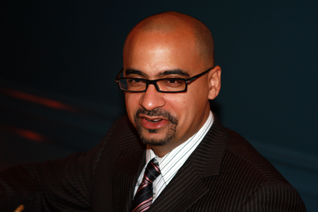 Writer Junot Díaz at the Mercantile Library Center for Fiction's Annual Benefit and Awards Dinner, held at the New York Tennis and Racquet Club at 350 Park Avenue, where he won the John Sargent, Sr. First Novel Prize of $10,000. October 29, 2007.